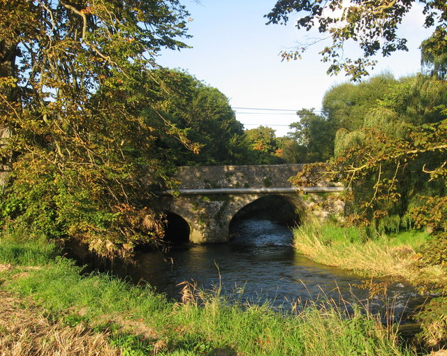 Dardistown Bridge, Cooper Hill, Co. Meath Three-arched stone bridge, with buttresses, carries the old coach road from Drogheda to Dublin (via The Naul) over the River Nanny. Bridge is shown in Taylor and Skinner's 'Maps of the Roads of Ireland' published 1778 but no bridge shown on Down Survey barony map of 1654. The Nanny here is the boundary between the townlands of Calliaghstown and Dardistown.